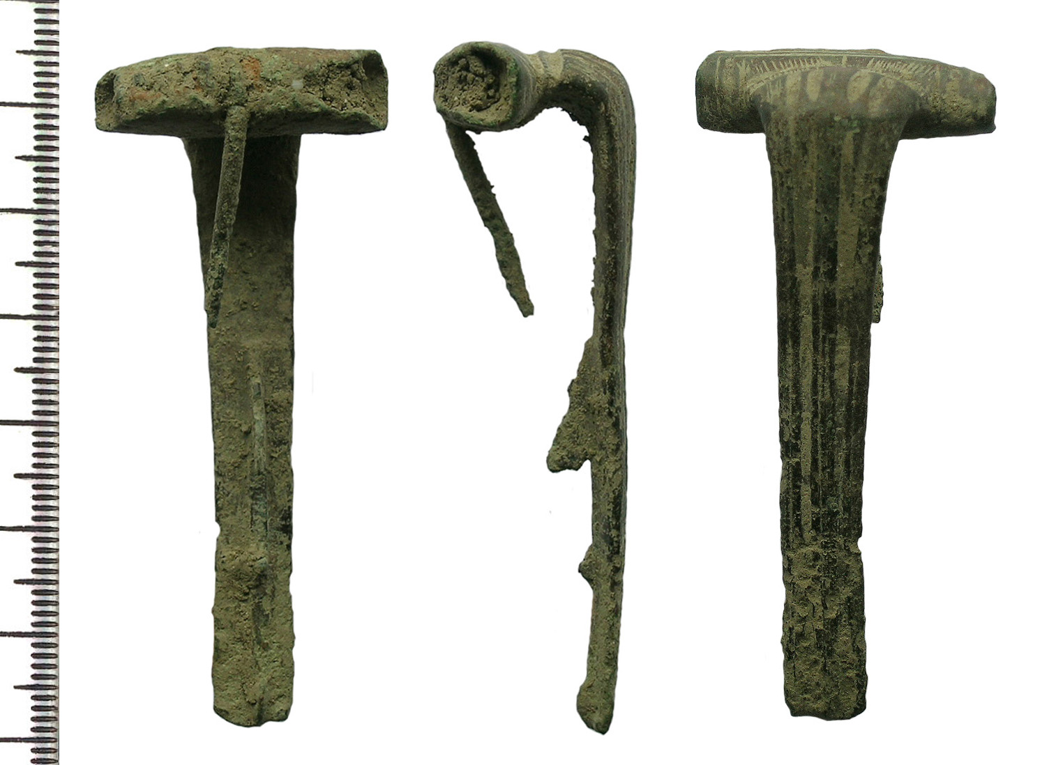 A copper-alloy brooch of late Iron Age to early Roman date. Langton Down brooch dating from the late 1st century BC to the late 1st century AD. The head measures 27.2mm wide and has an incomplete spring enclosed within curled flaps on the underside of the head. The damaged pin emanates from a central slot in the flaps. The display side of the head is decorated with a repeating pattern of closely-spaced incised diagonal lines within an incised border. Two further incised lines extend horizontally across the top of the head. The vertical sides of the bow are slightly concave and the width tapers slightly towards the squared-off foot. The display surface of the bow has a series of vertical indentations and ridges. The catchplate is largely missing, but was originally of the open type. The object is heavily encrusted. It measures 62.9mm long and weighs 18.04g.